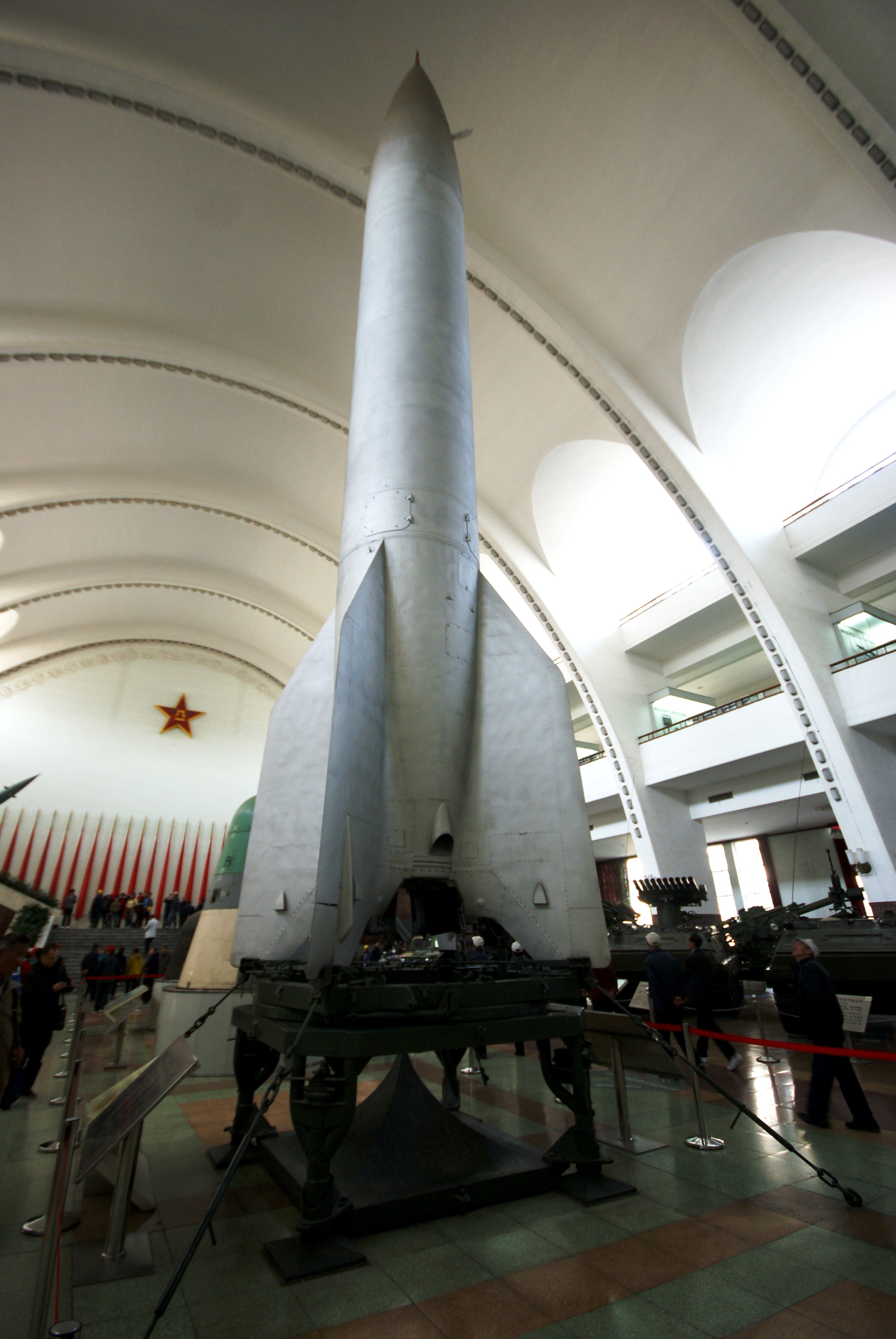 Dongfeng 1 ("East Wind 1") missile on display at the Military Museum of Chinese People's Revolution.